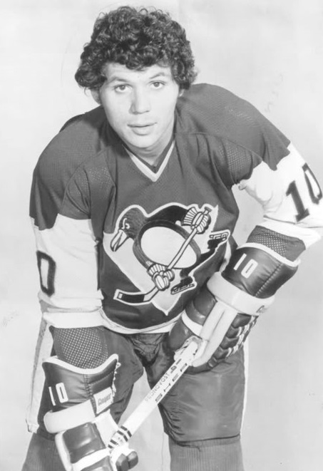 Peter Lee in 1979